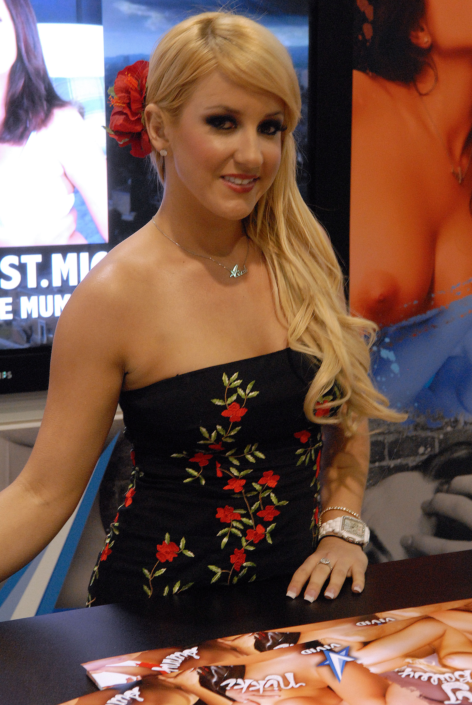 Vivid star Lia at AVN Adult Entertainment Expo 2010